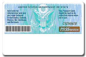 PASS card, Department of Homeland Security Image: US Department of State